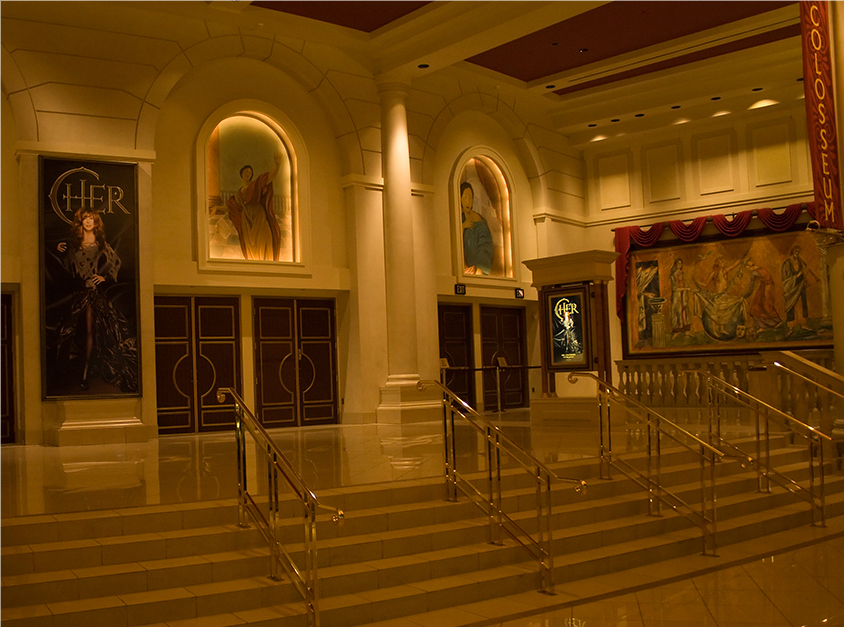 Cher's home at the Collosseum at Caesars Palace in Las Vegas. On February 7, 2008 Cher, at 61, announced that she had reached a deal to perform 200 shows over three years live at the Colosseum at Caesars Palace in Las Vegas. Her new show, entitled Cher at the Colosseum, debuted on May 6, 2008.